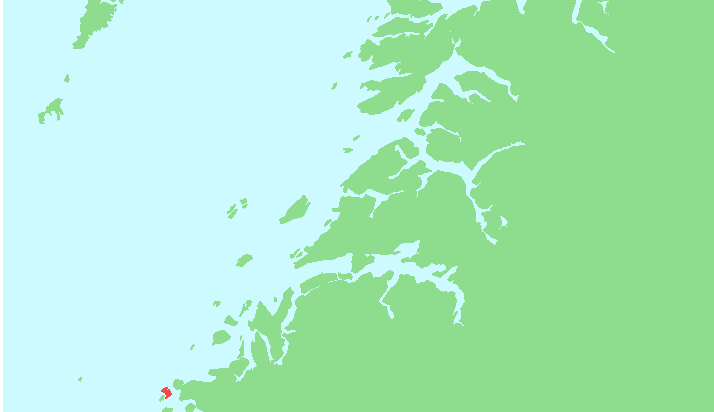 Locator map of Støttvær, Nordland, Norway